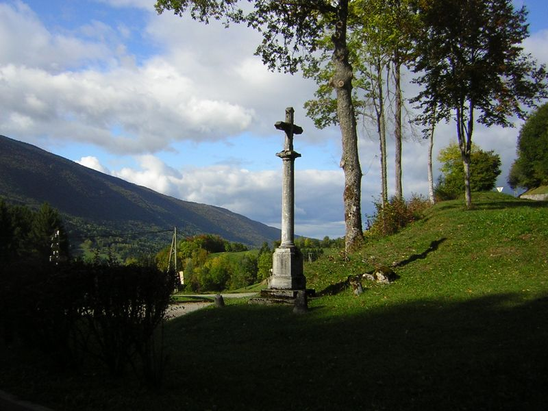 A cross at a crossroads in Saint-Eustache - Savoy - France